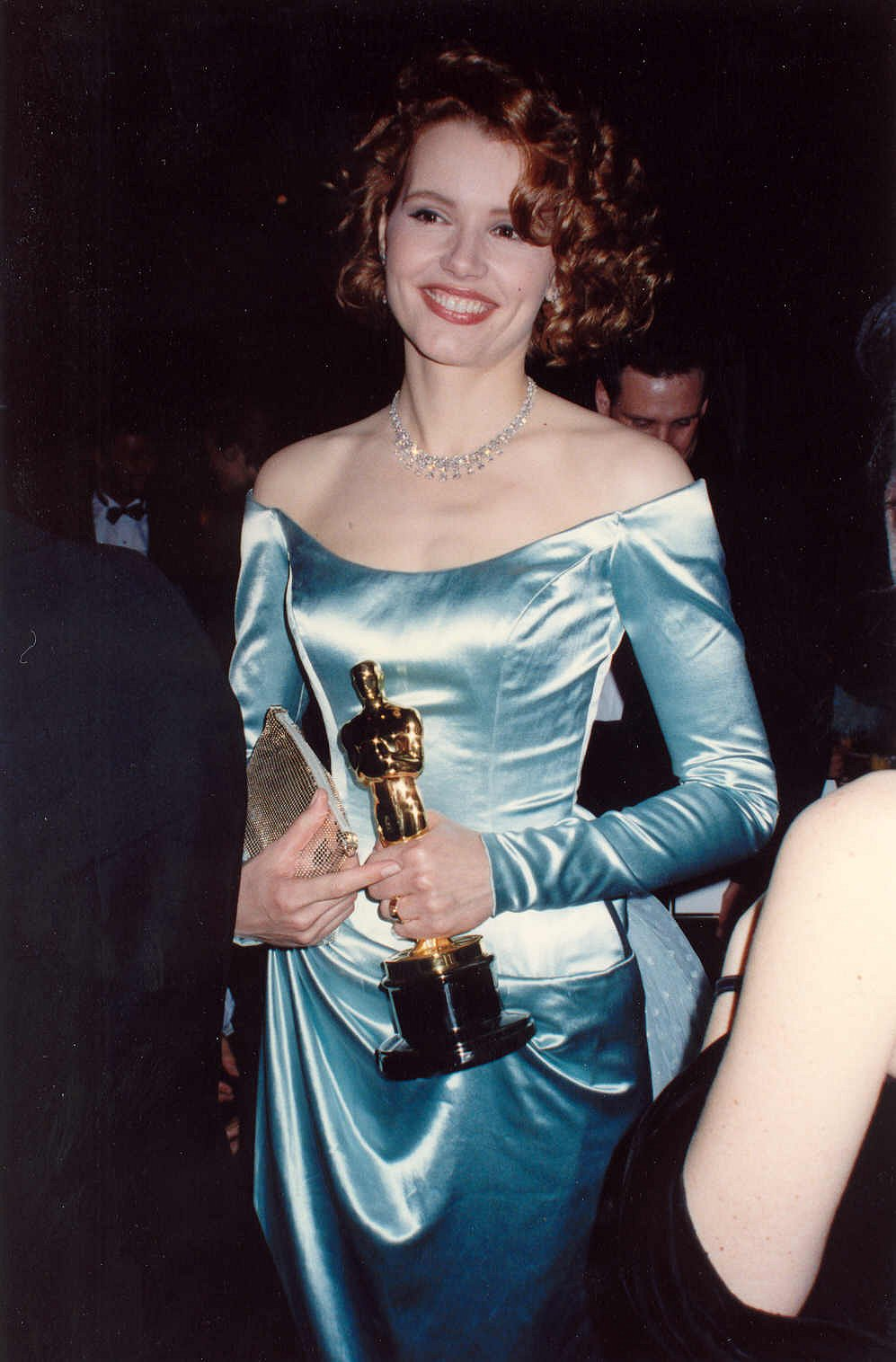 Geena Davis at the Academy Awards.